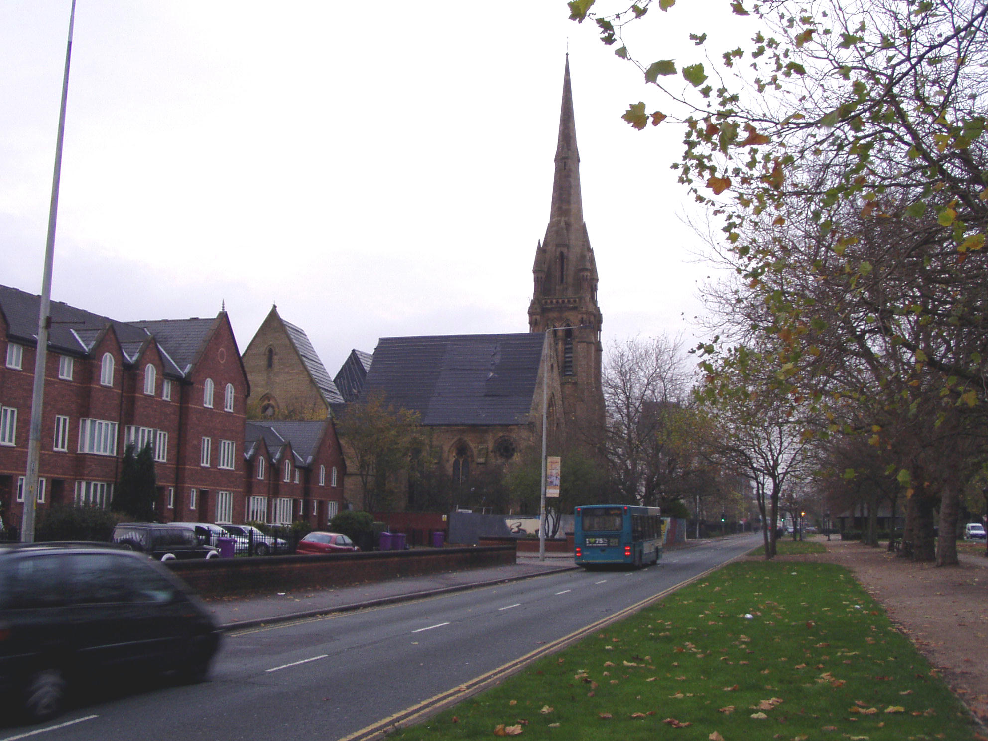 Princes Road, Liverpool